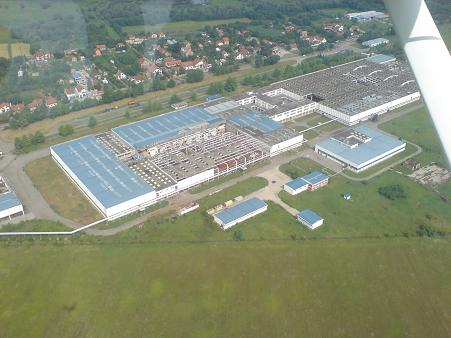 Aerial view of Pancevo's "Lola Utva" aviation plant.